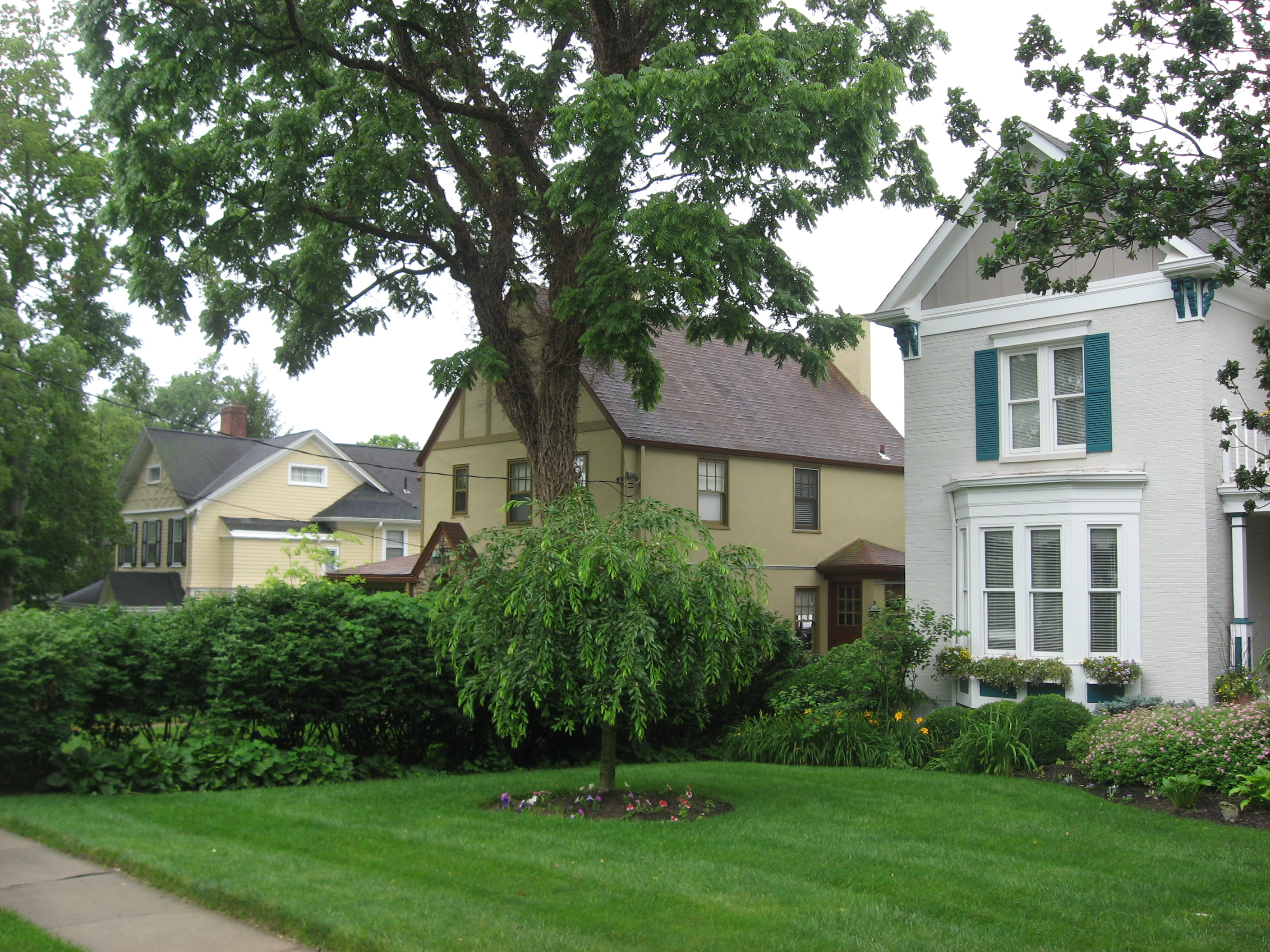 Houses on the western side of Observatory Place in Cincinnati, Ohio, United States. This block is part of the Observatory Historic District, a historic district that is listed on the National Register of Historic Places.